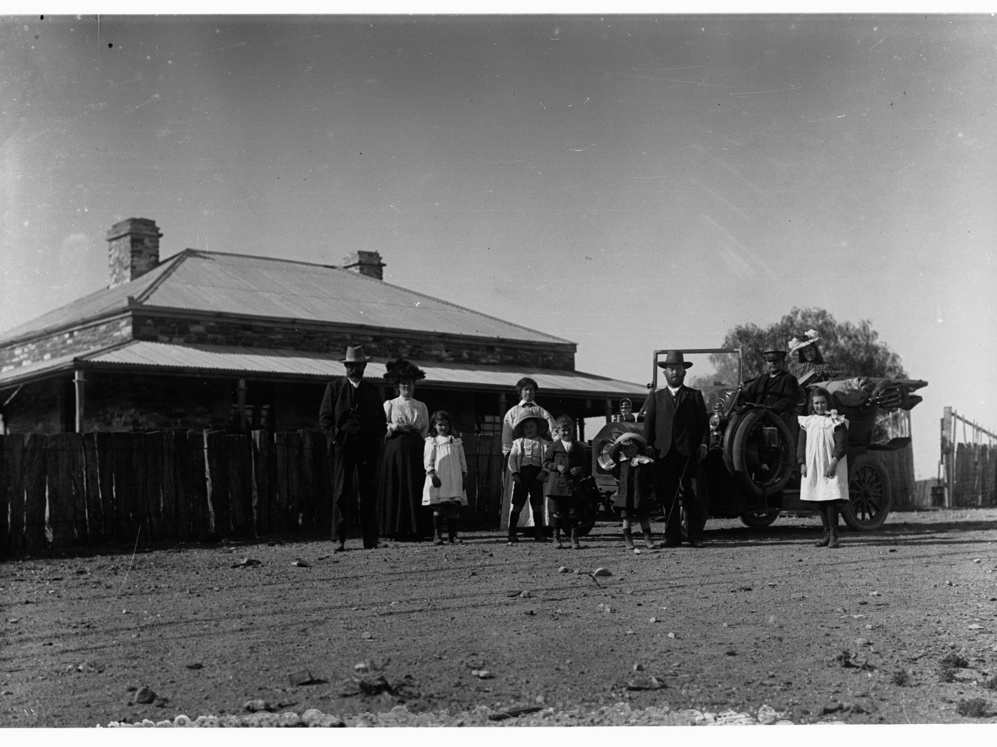 Index says Winealpa Station (G. Brooks) 'Winealpa' is a misspelling of 'Wirrealpa'. On 31 October 2007, Barbara Fargher of Wirrealpa Station (08 8648 4818), via Blinman, confirmed that this is Wirrealpa homestead. The title has been altered accordingly. Revised by J. Davis, 9 July 2008.